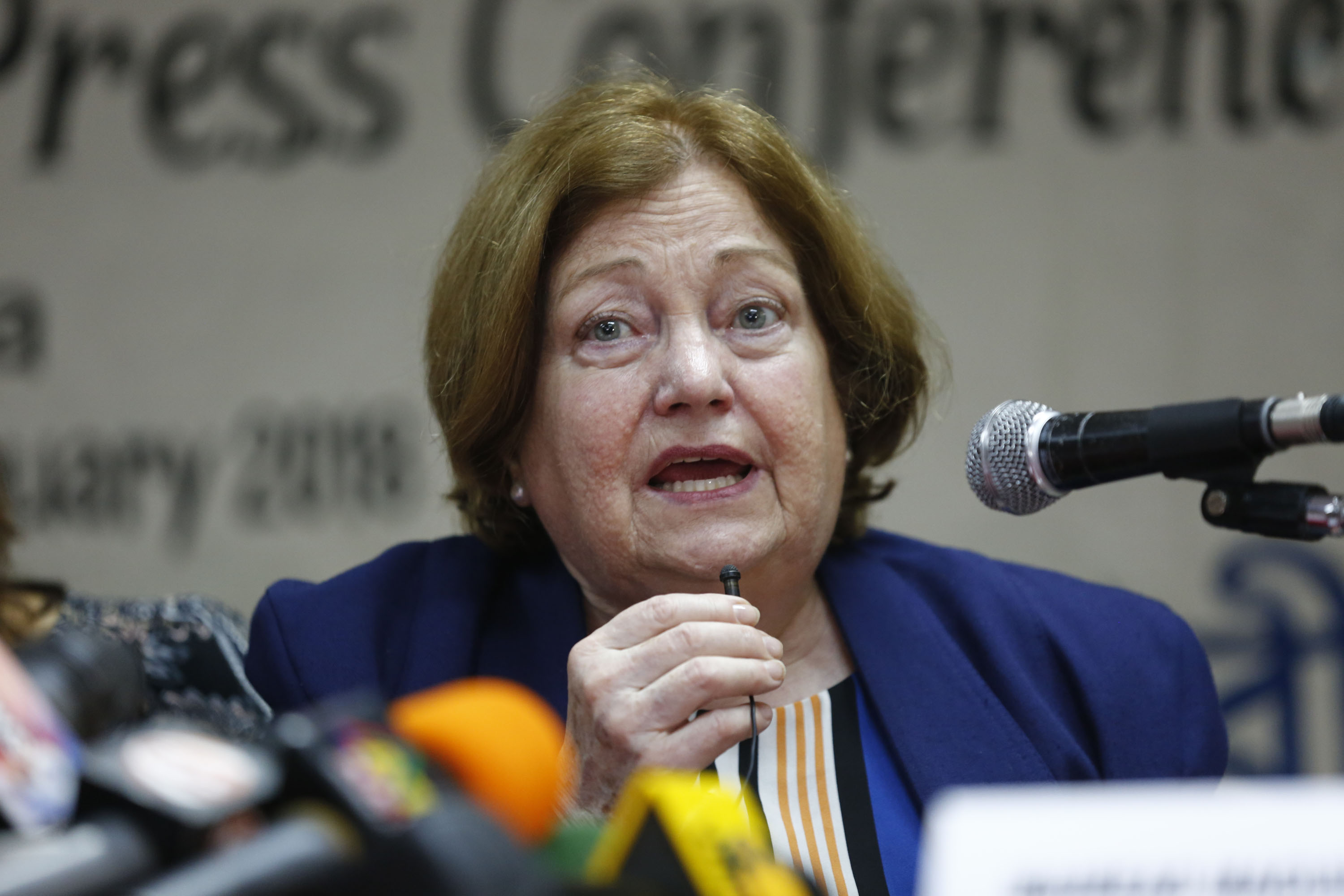 Mairead Maguire talk about Rohingya issue during Bangaldesh visit on March 2018